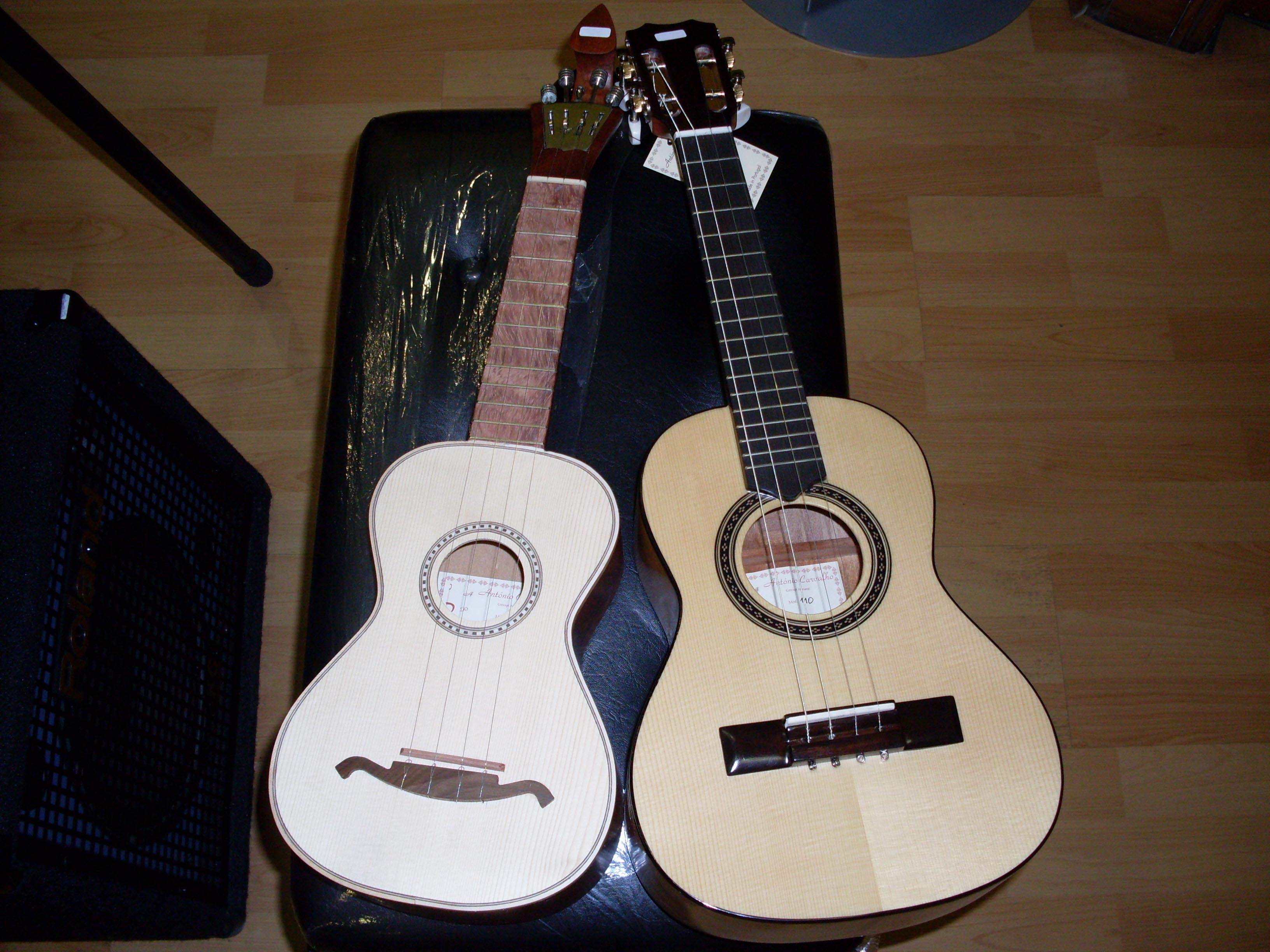 Two cavquinhos: Minho cavaquinho at left; Brazilian cavaquinho at right.